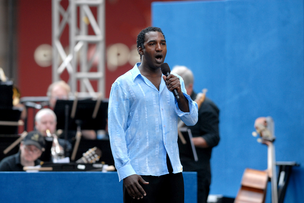 Les Miserables cast member Norm Lewis performs "Stars" at Broadway on Broadway, September 10th 2006.